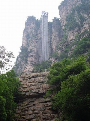 The Bailong Elevator at Wulingyuan Park, Zhangjiajie, China